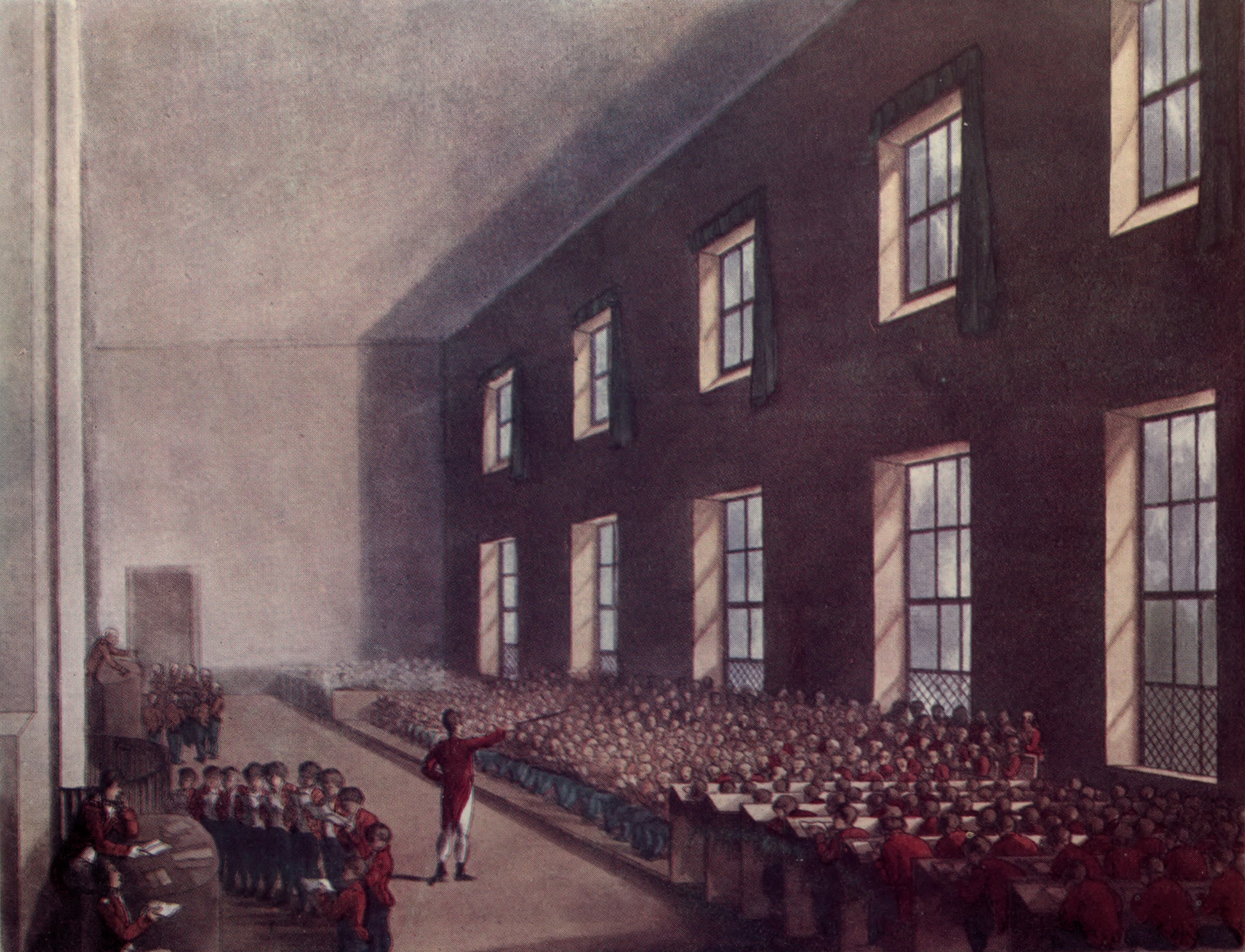 Military College, Chelsea